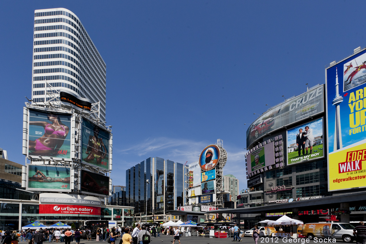 In the distance you can see the Batmobile crowds